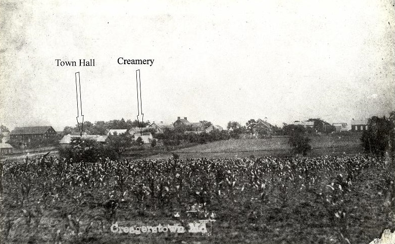 A photo from a postcard showing Creagerstown before the 1914 fire.